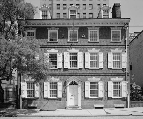 Reynolds-Morris House, 225 South Eighth Street, Philadelphia (Philadelphia County, Pennsylvania)